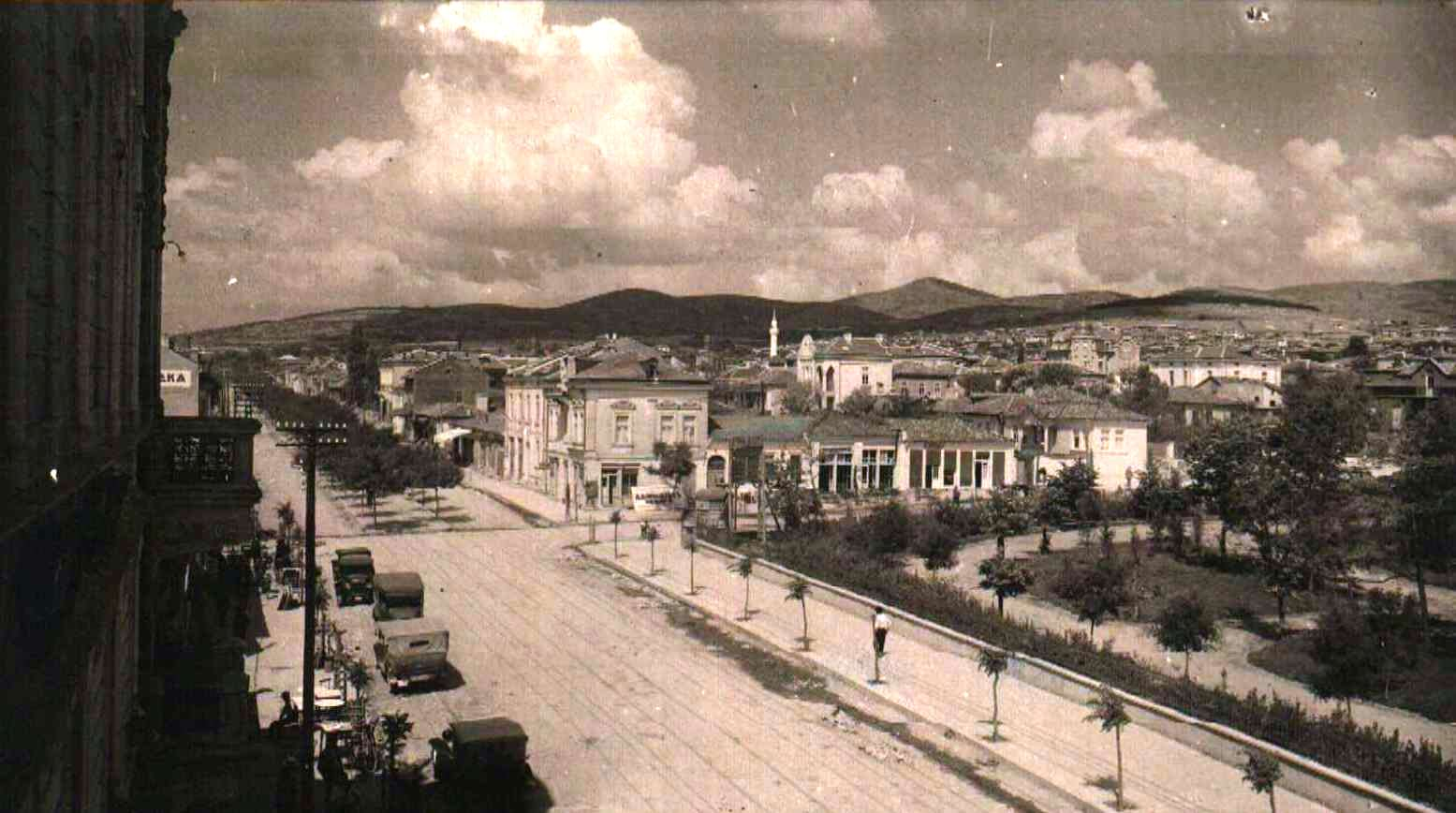 View of the central street of Stara Zagora, Bulgaria